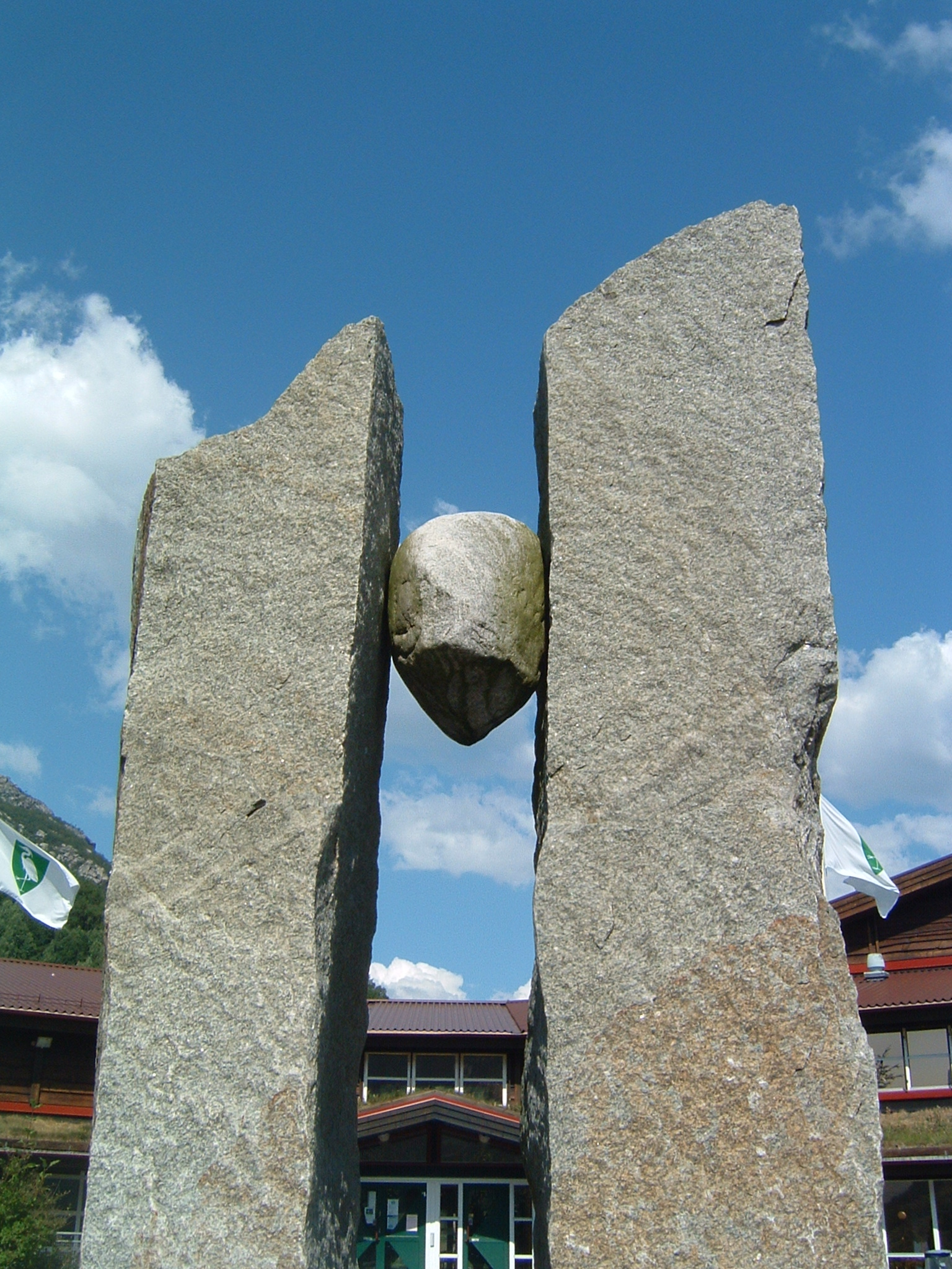 A picture from Forsand Kulturhus